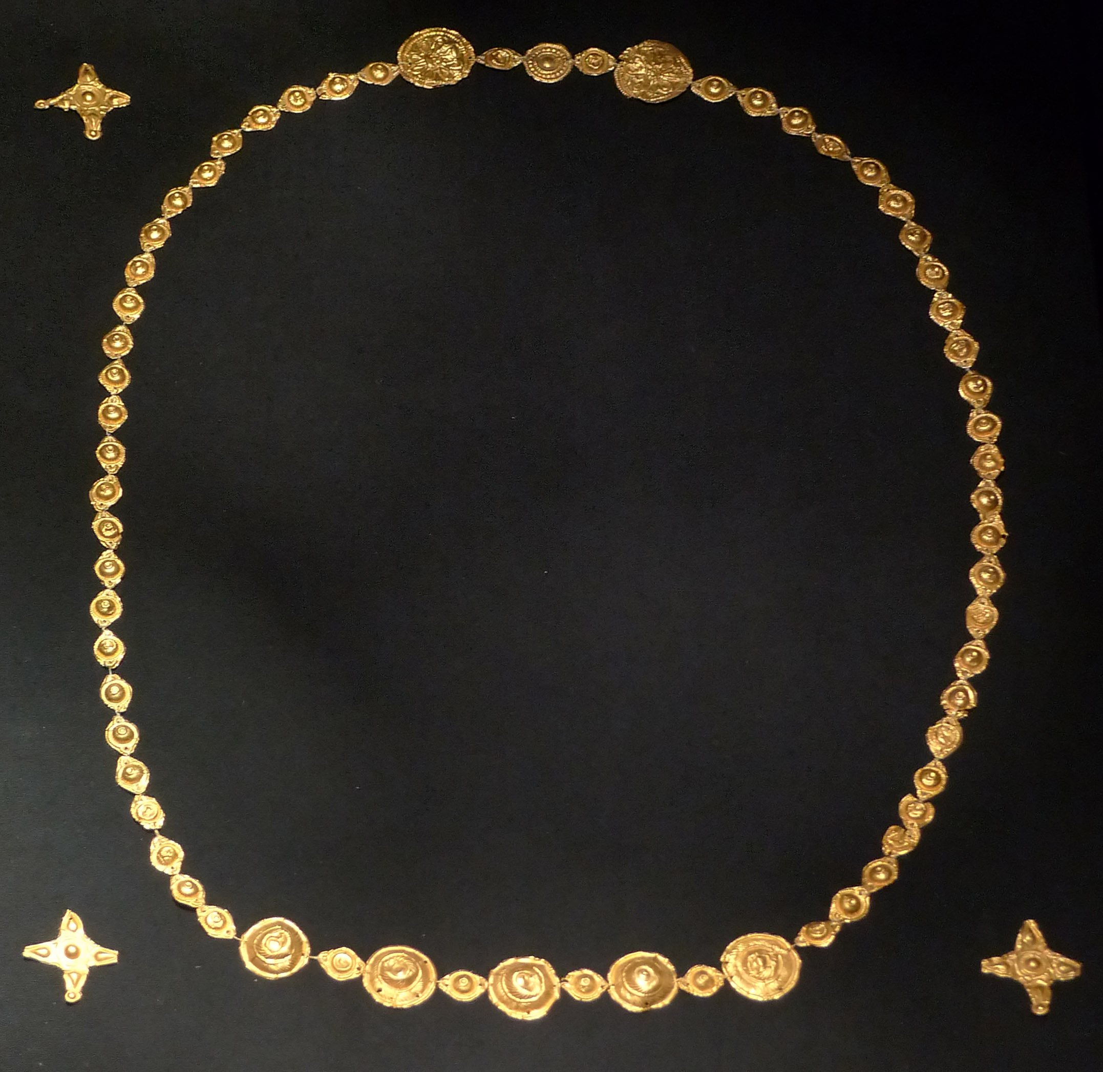 Vandalic goldfoil garment decorations. From the Czéke burial site, around 300 AD or early 4th century AD.